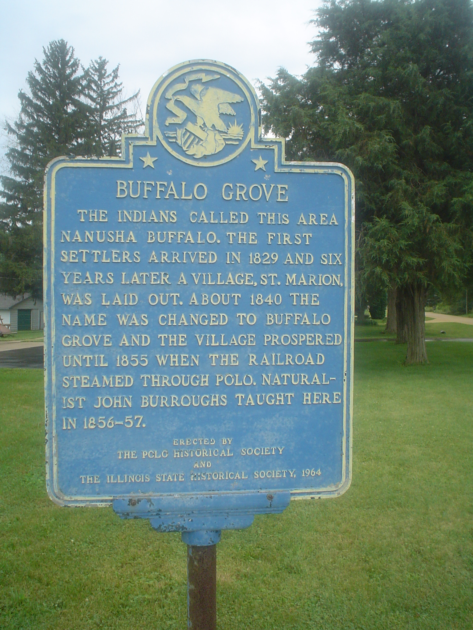 Historic sign of old Buffalo Grove, Ogle County, Illinois, USA.